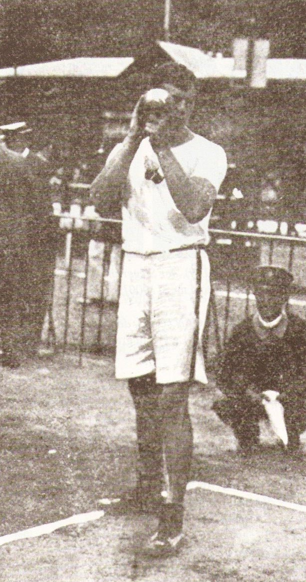 Richard Sheldon, gold medalist in the shot put and bronze medalist in discus at the 1900 Olympic Games.